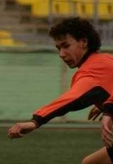 Artur Valikaev as a player of FC Ural